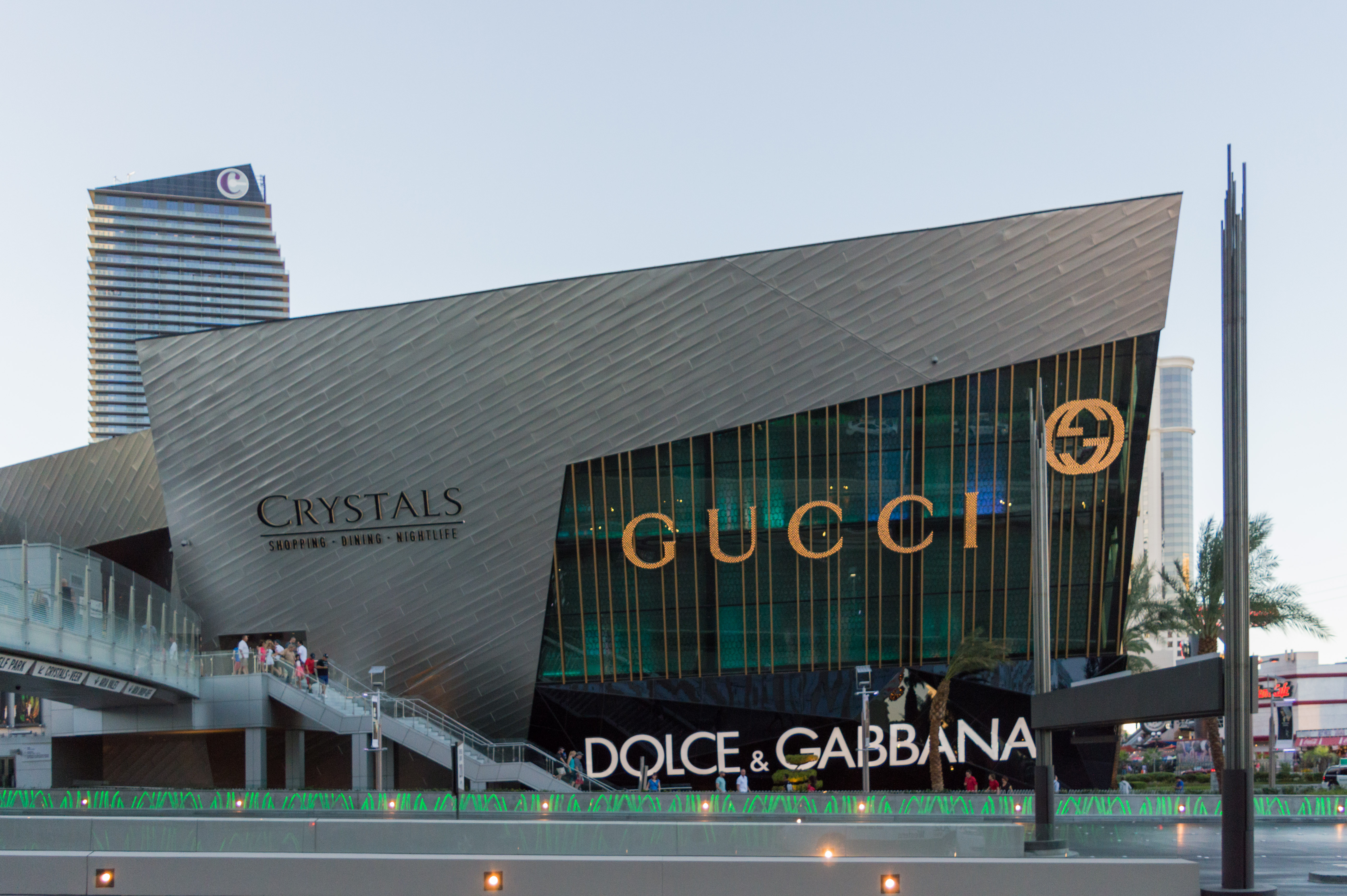 The side facade of The Crystals with a Gucci store. The Cosmopolitan Beach Tower can be seen in the left.